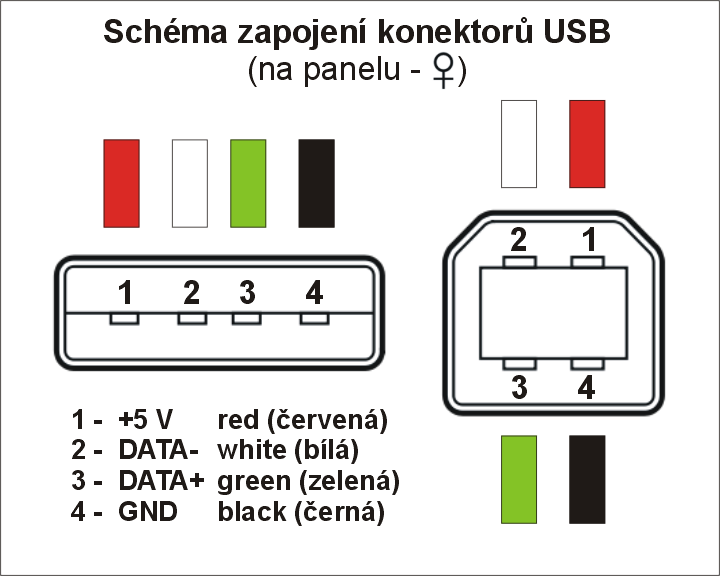 USB pinouts connect (female)